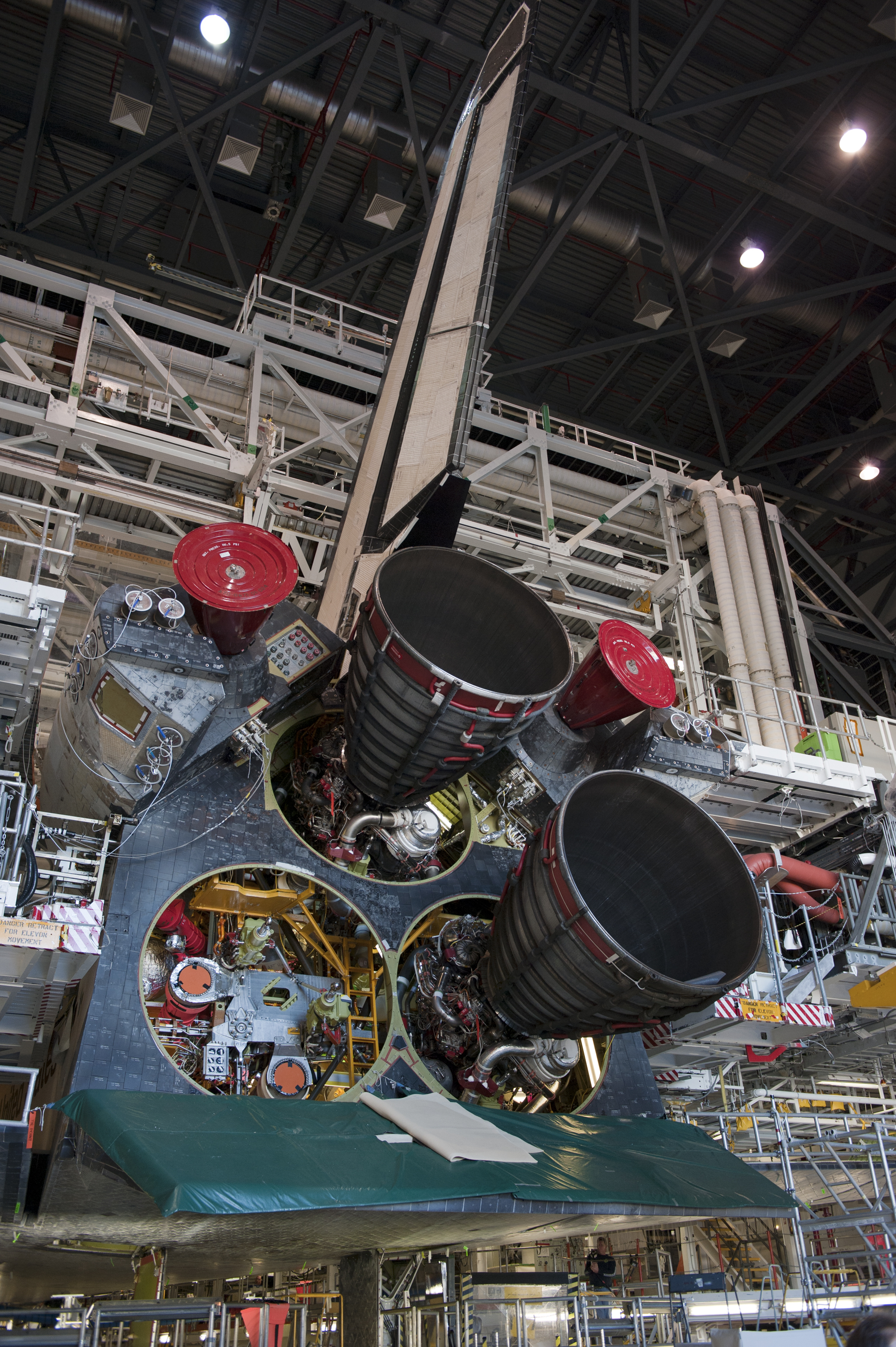 CAPE CANAVERAL, Fla. -- In Orbiter Processing Facility-1 at NASA's Kennedy Space Center in Florida, the second of three space shuttle main engines is installed in shuttle Atlantis. Each engine is 14 feet long, weighs about 6,700 pounds, and is 7.5 feet in diameter at the end of the nozzle. This is the final planned engine installation for the Space Shuttle Program. Atlantis is being prepared for the "launch on need," or potential rescue mission, for the final planned shuttle flight, Endeavour's STS-134 mission.